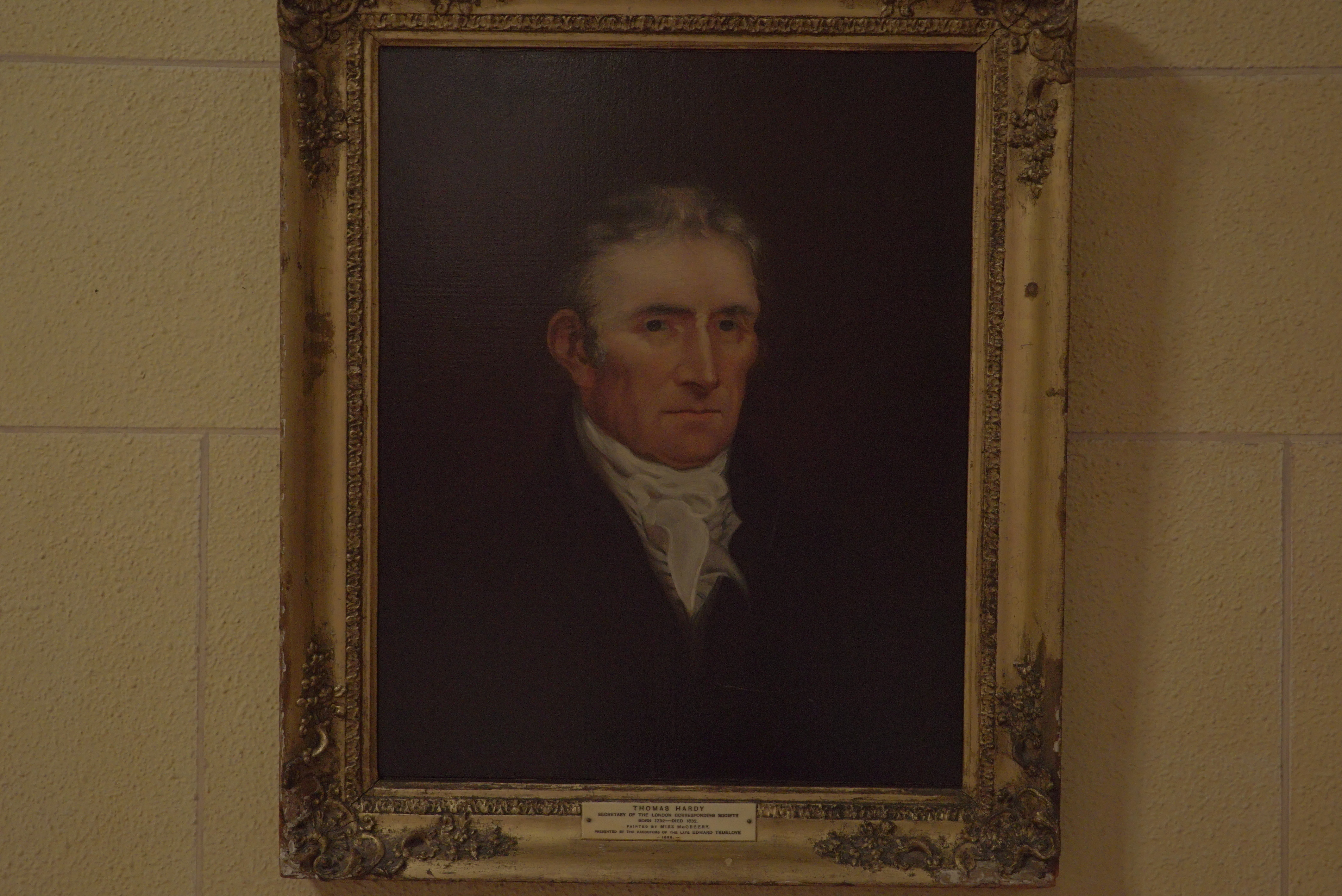 A portrait of Thomas Hardy owned by the hotel above the National Liberal Club